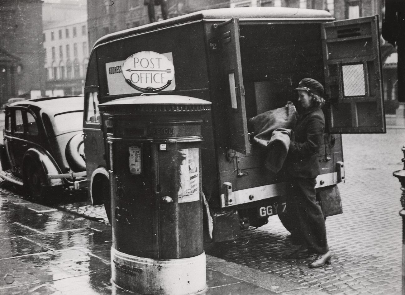 DIG40355: Electrical car for the English Mail Service in 1943. This van comes from a batch of nine vehicles purchased by the General Post Office (GPO) in March/April 1943. They were built by Metropolitan-Vickers at Sheffield. The manufacturer's standard 10/14 cwt. chassis was employed with a body, also by Metropolitan-Vickers, to GPO specification. The load space was 105 cu. ft.; payload 8 cwt.; it has a 40 cell, 80 volt battery and designed to carry a crew of two. They were driven - in the main - by women. All were based in Manchester (as far as is known) for deliveries in the City centre.